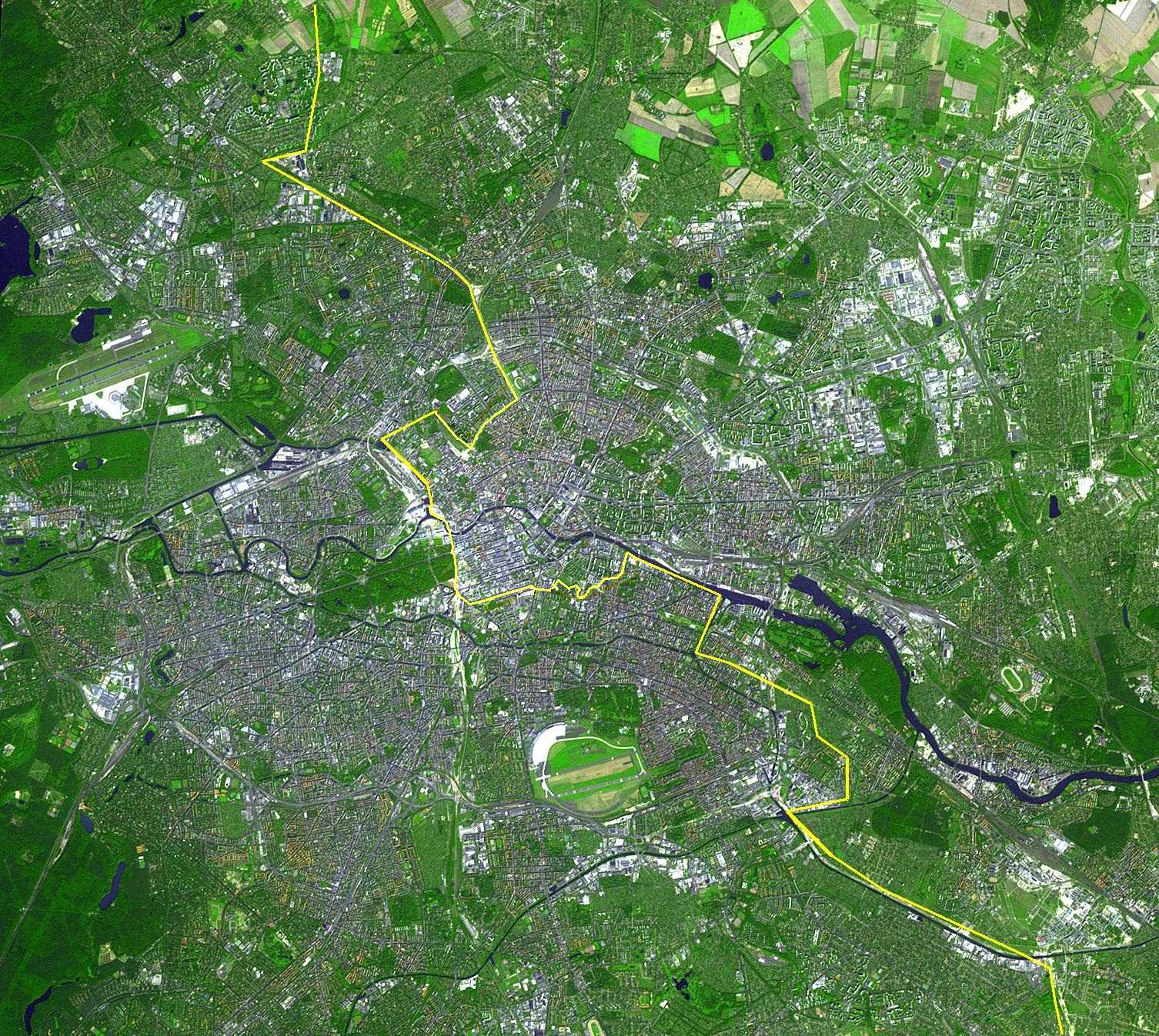 Satellite image of Berlin, Germany. The yellow line marks where the Berlin Wall once stood.This simulated natural color ASTER image covers an area of 22.5 by 20.2 km, and was acquired August 22, 2002.